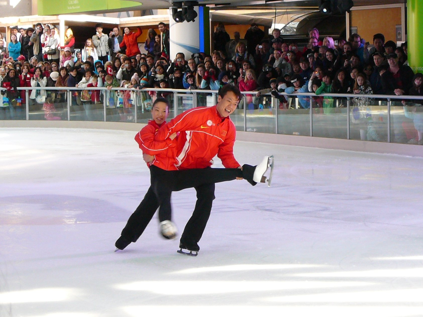 Shen Xue and Zhao Hongbo in rehersals at the 2010 Winter Olympics